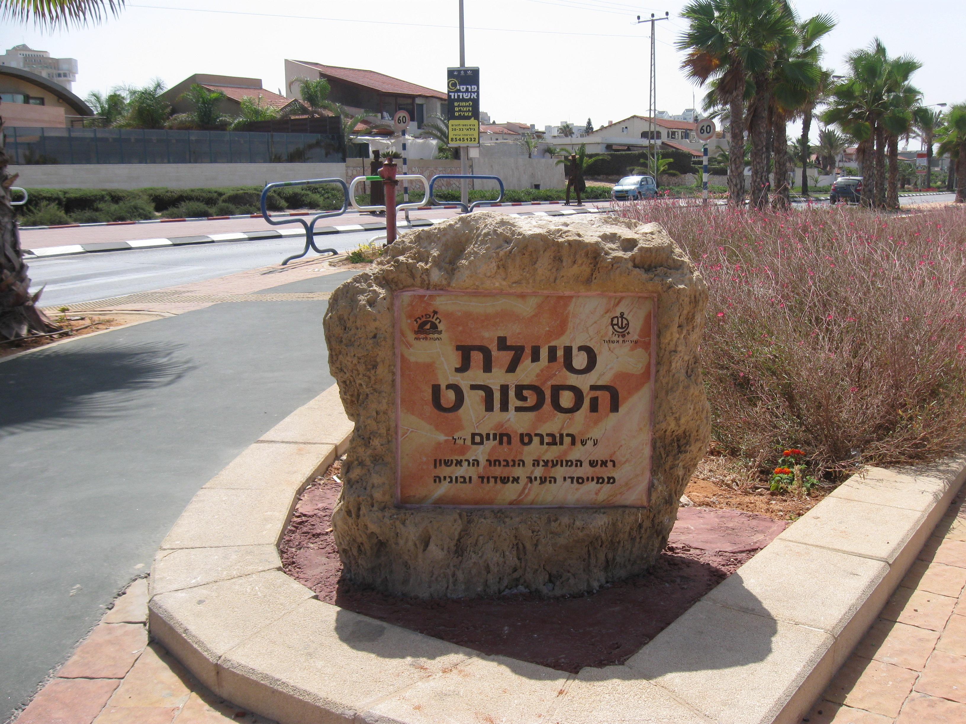 Promenade robert haiim